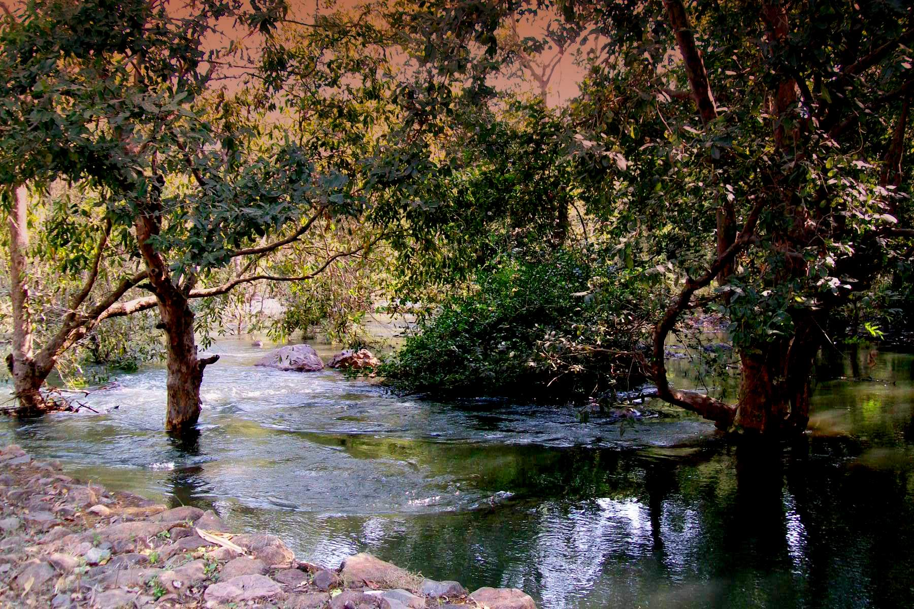 Sitamata Sanctuary